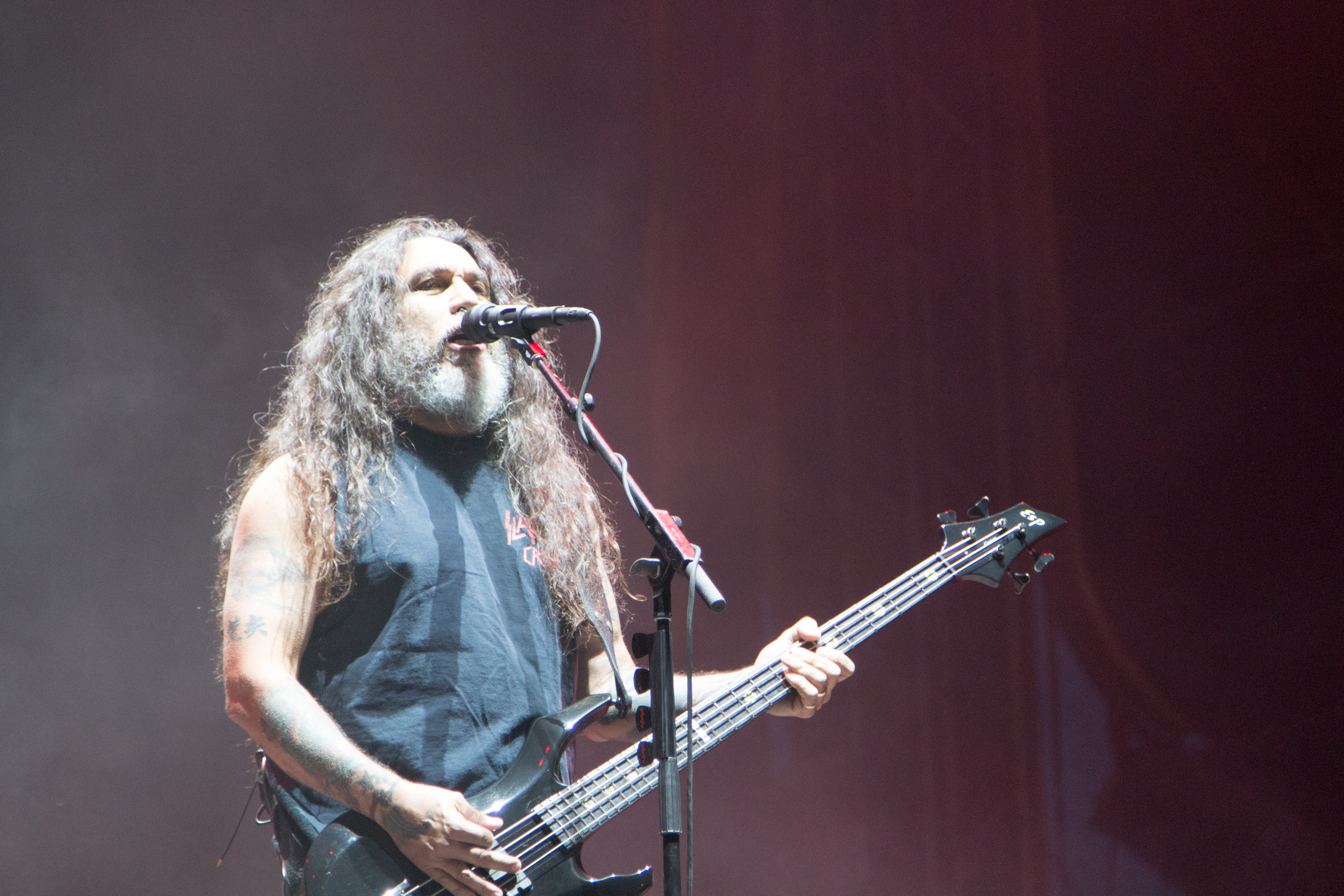 Tom Araya from Slayer at Nova Rock 2014